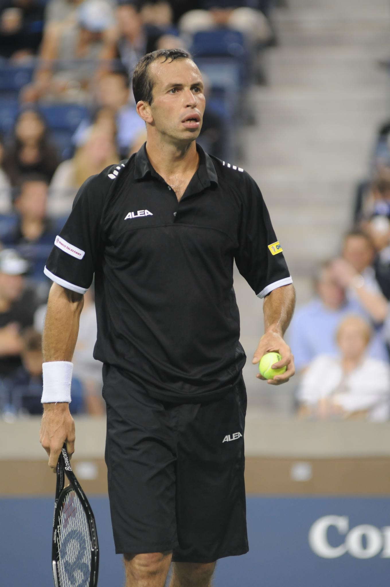 US Open 2009 4th round 338